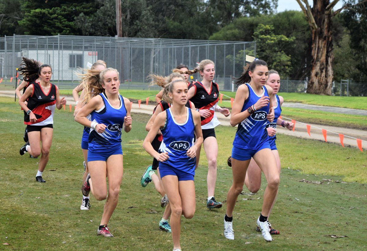 AGSV (wearing black, red and white) and APS (wearing blue and white) runners in the 2016 AGSV/APS Girls' Representative Cross Country, held at Yarra Valley Grammar School.